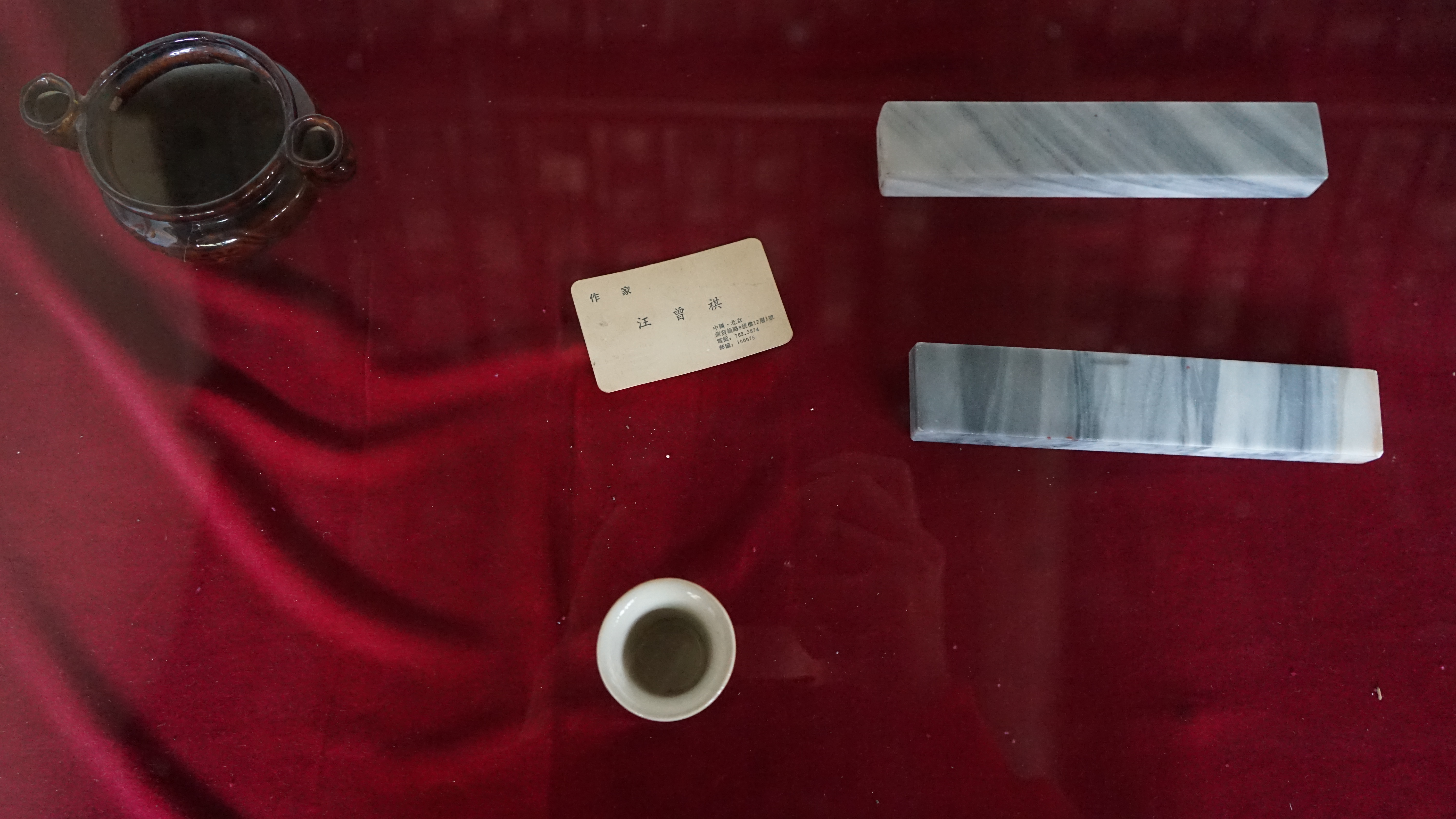 Wangle Zengqi relics, Literature Showroom for Wang Zengqi